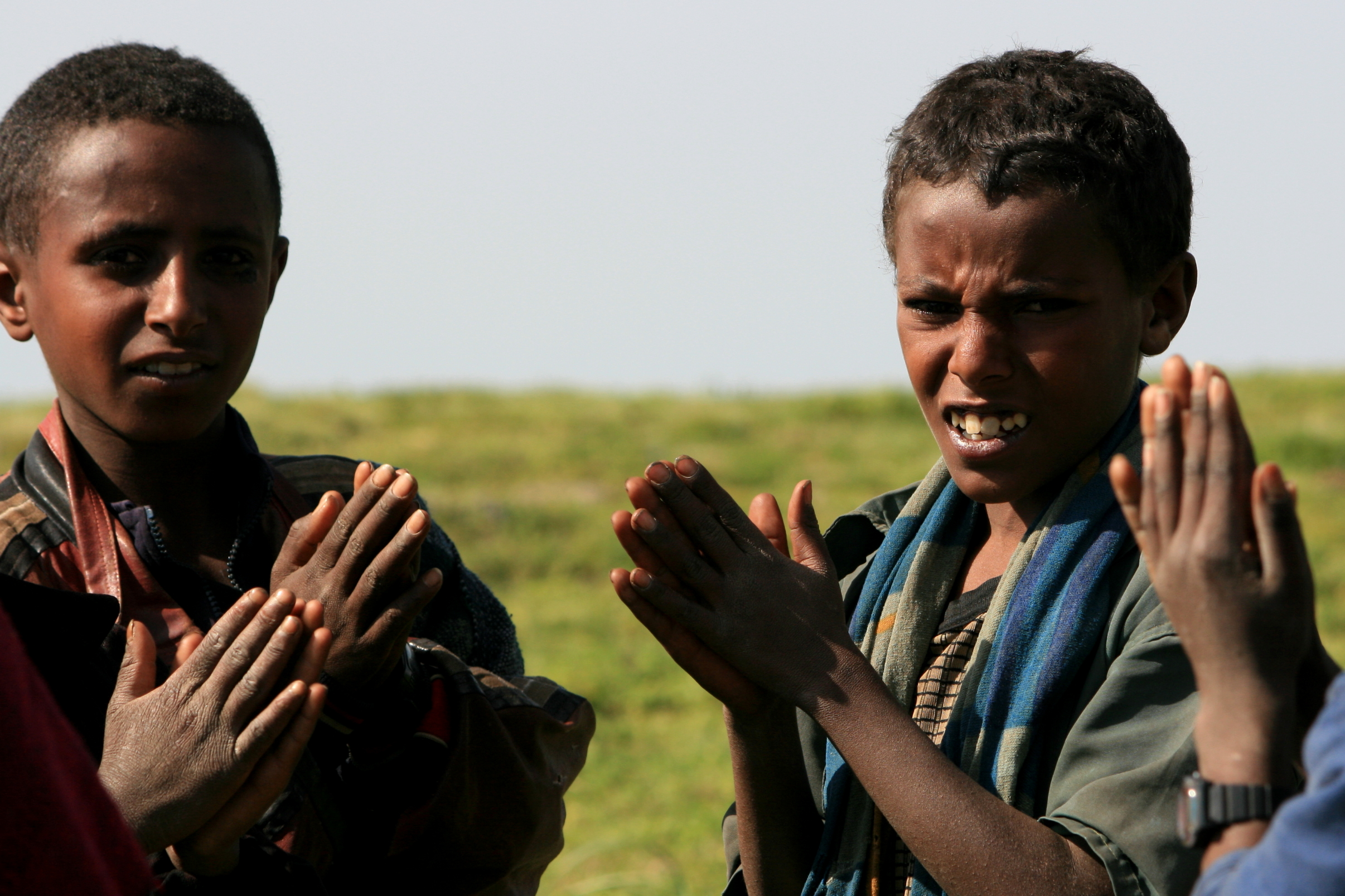 Shepherd children clapping and singing in highlands of the Amhara Region of Ethiopia.